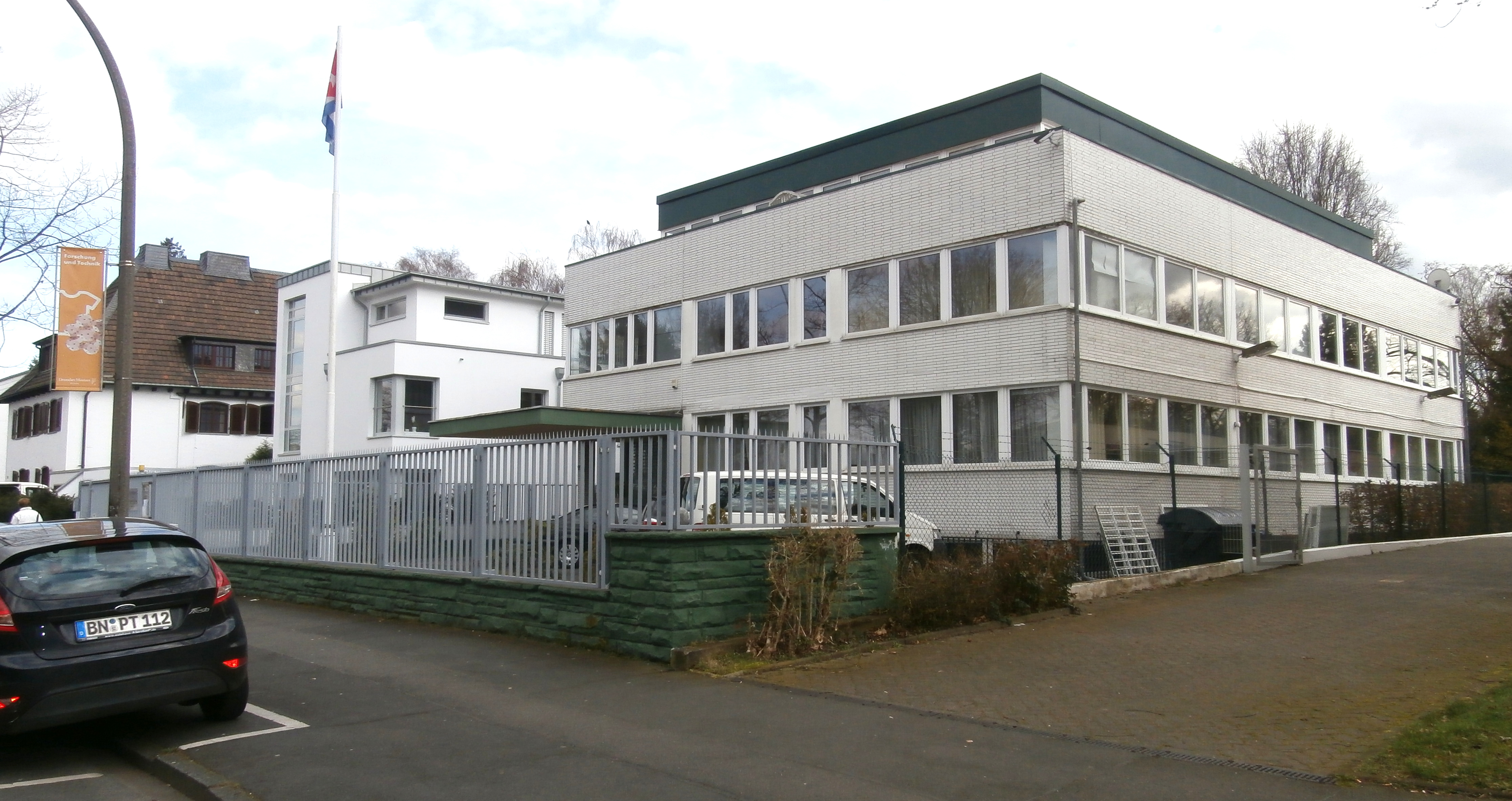 Branch office of the Embassy of the Republic of Cuba in Bonn, Kennedyallee 22–24